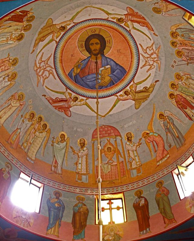 Annunciation Cathedral (Jerusalem) : Fresco of Christ Pantocrator